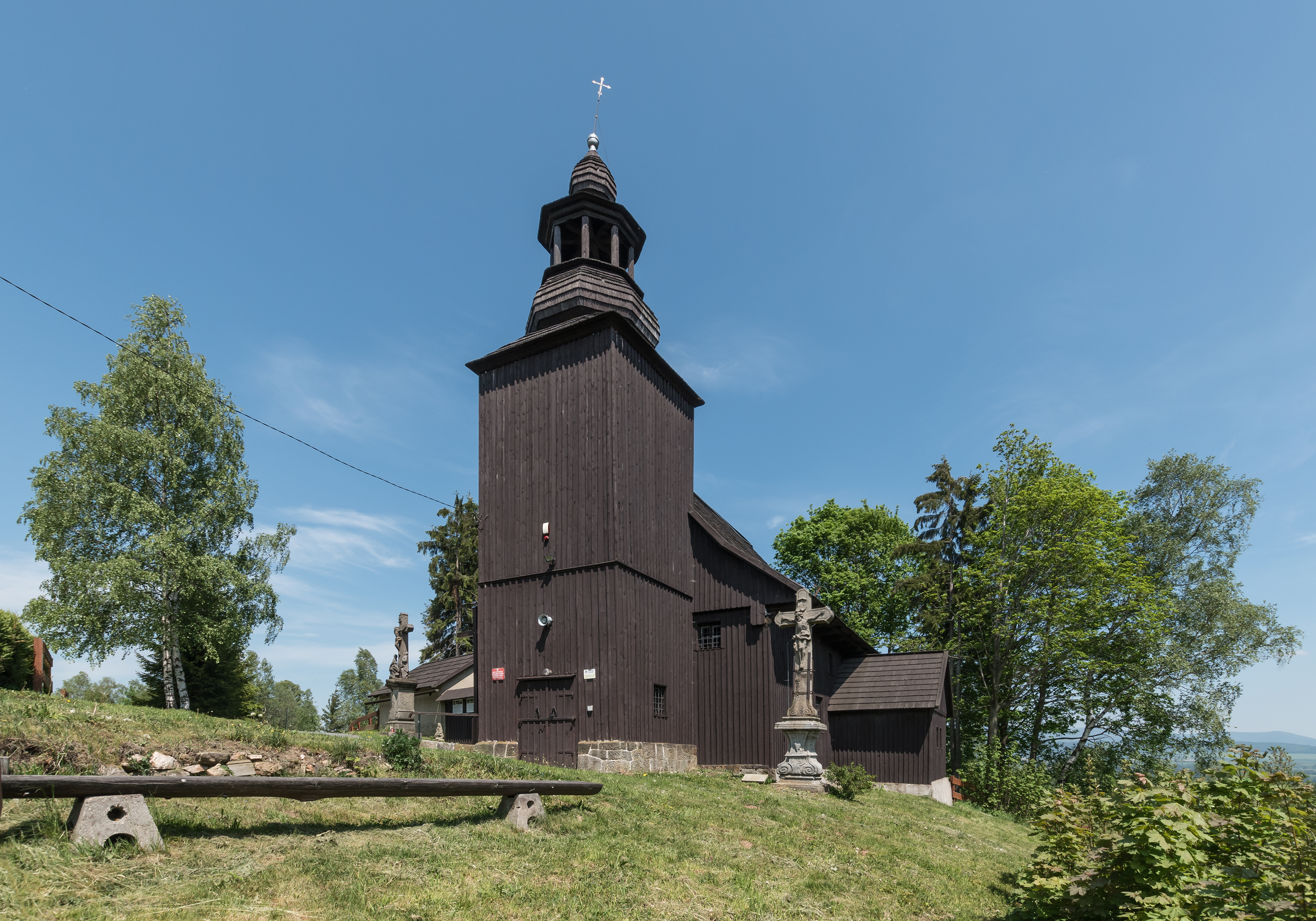 Saint Michael Archangel church in Kamieńczyk